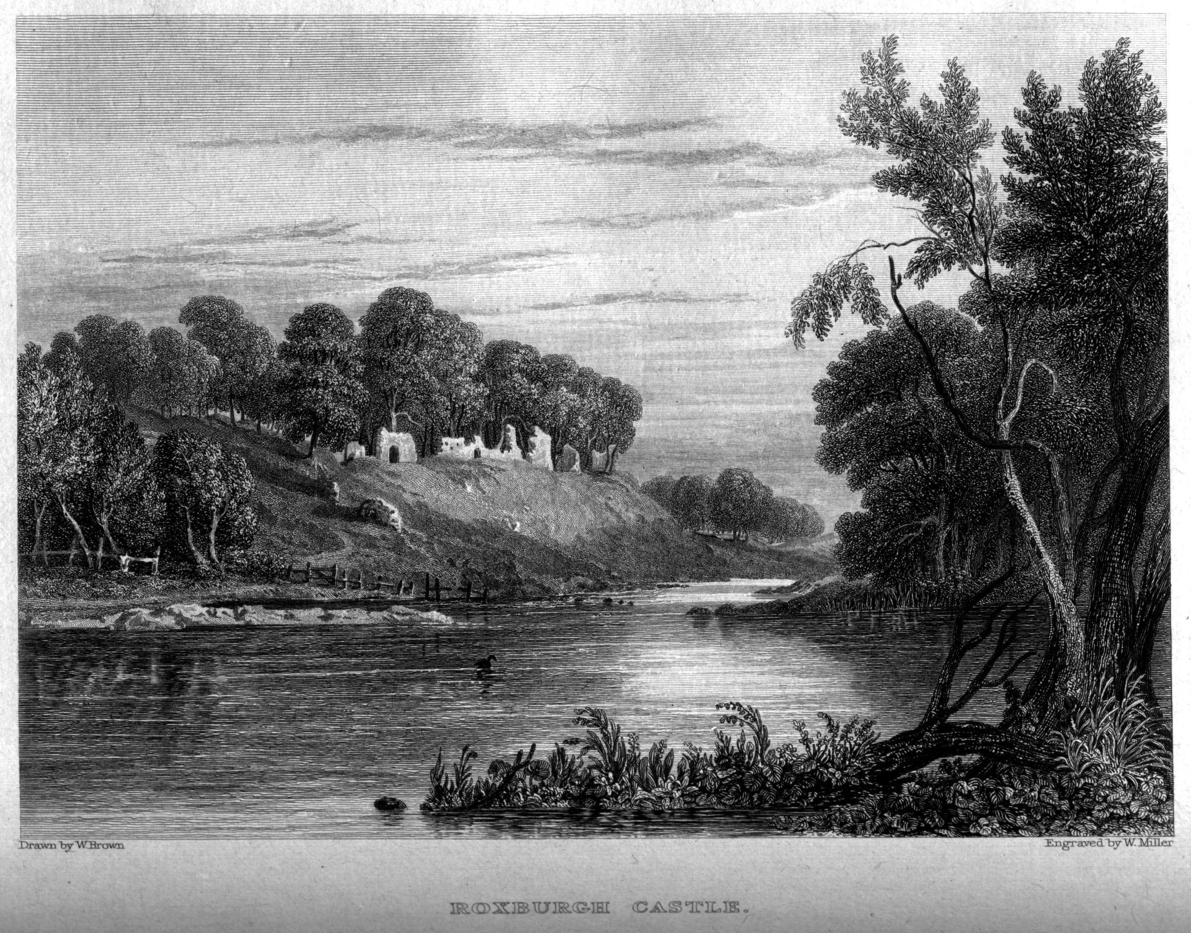 Roxburgh Castle, engraving by William Miller after W Brown, published in Select Views Of The Royal Palaces Of Scotland, From Drawings by William Brown, Glasgow; With Illustrative Descriptions Of Their Local Situation, Present Appearance, And Antiquities. John Jamieson. Cadell & Co & Simpkin Marshall, Edinburgh & London 1830